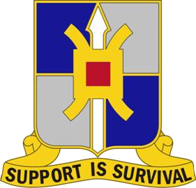 United States Army, Virginia Army National Guard, 429th Support Battalion's distinctive unit insignia